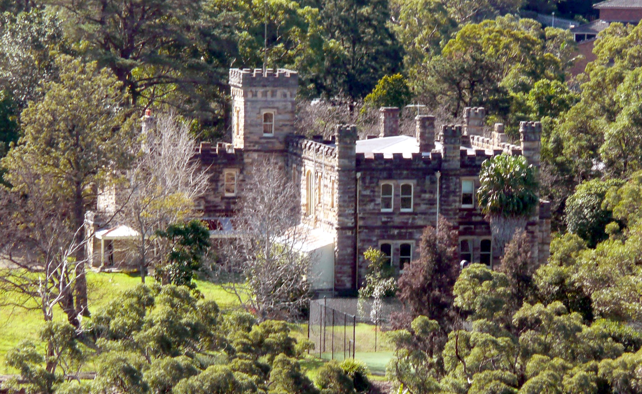 innisfail castle, sydney